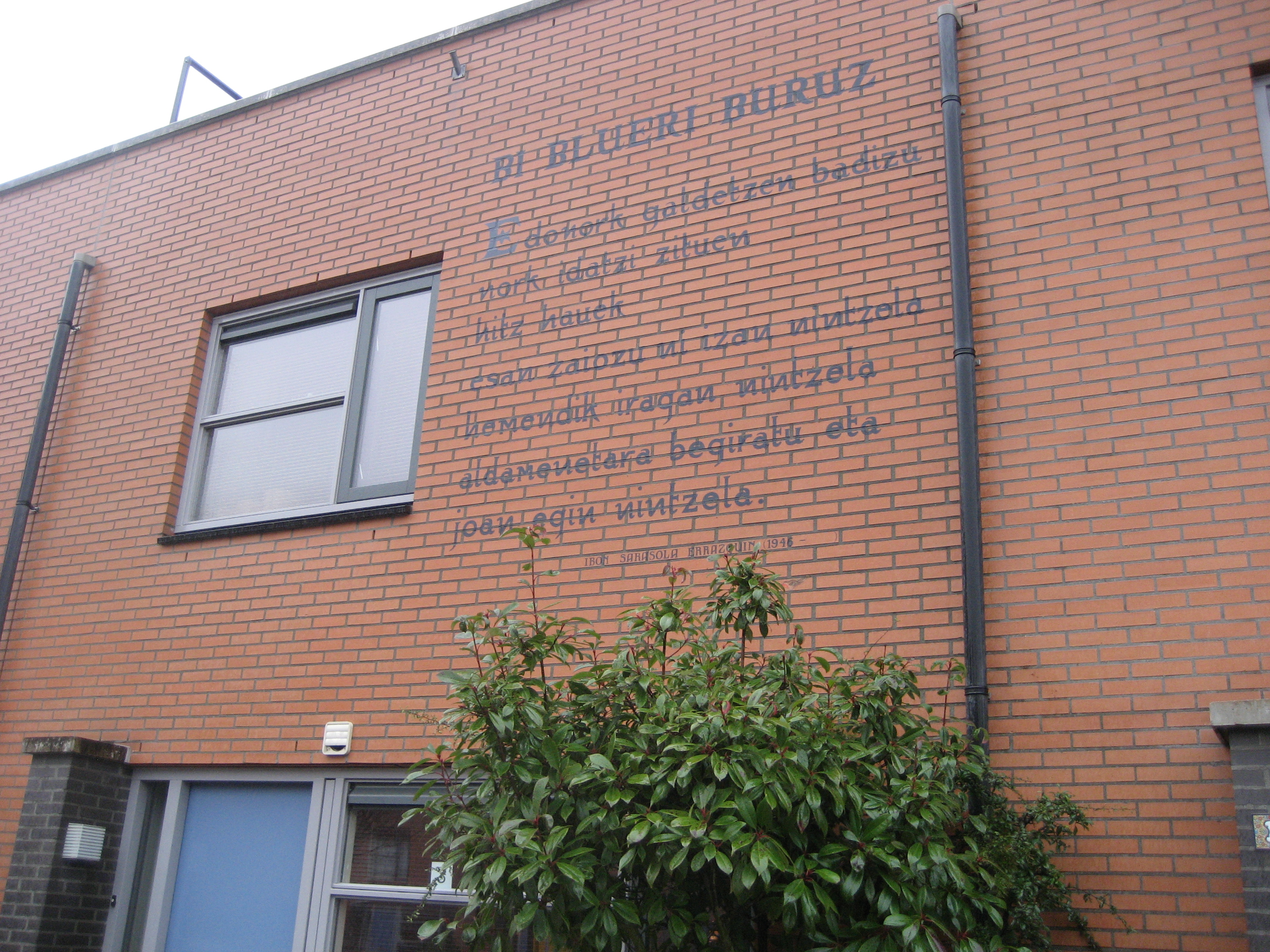 Ibon Sarasola: Bi blueri buruz. Poem on a wall in Leiden (Multatuliplein)